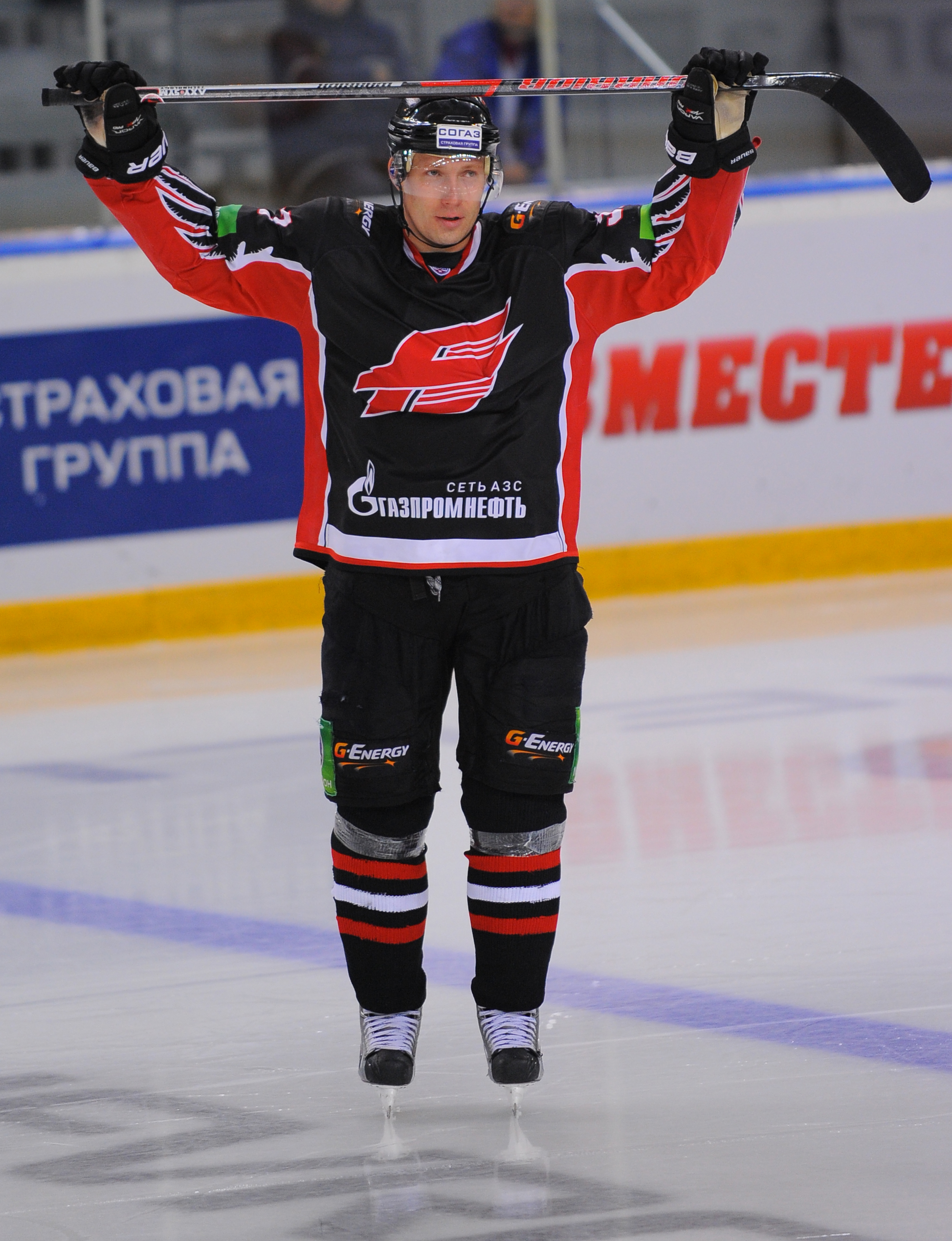 Alexander Perezhogin. Forward HC "Avangard"